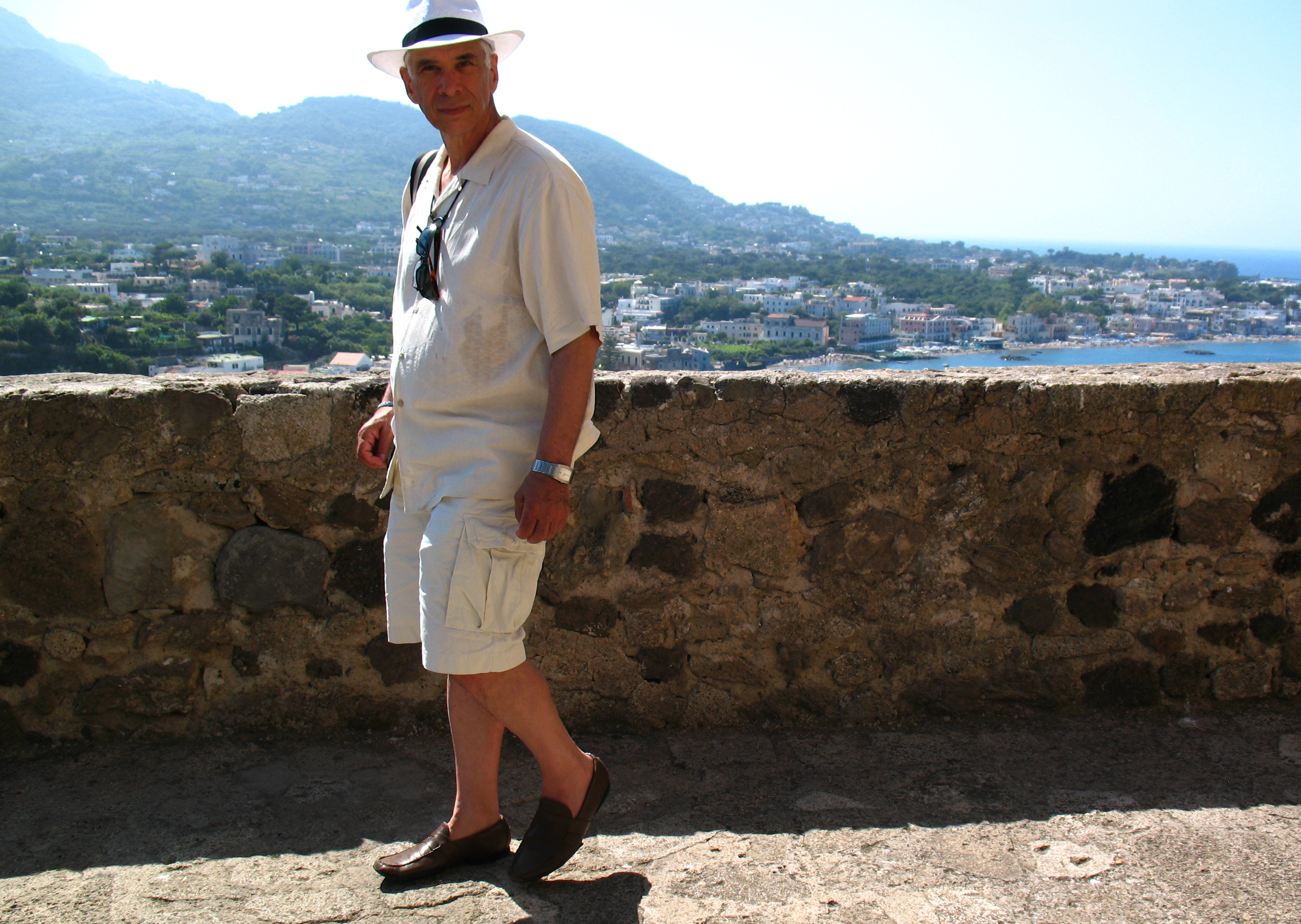 Dr. Nakell overlooking Ischia, Italy.